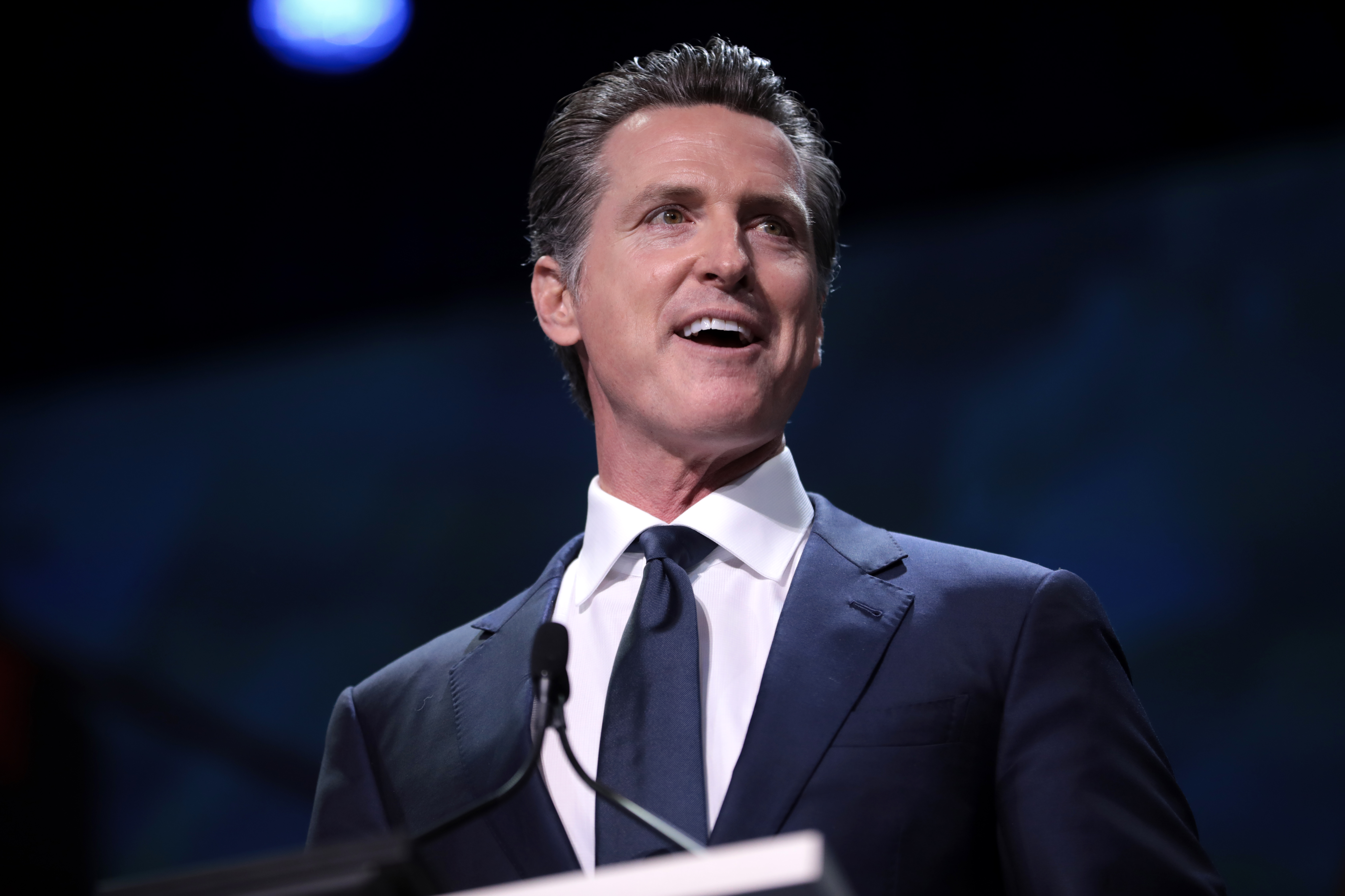 Governor Gavin Newsom speaking with attendees at the 2019 California Democratic Party State Convention at the George R. Moscone Convention Center in San Francisco, California.